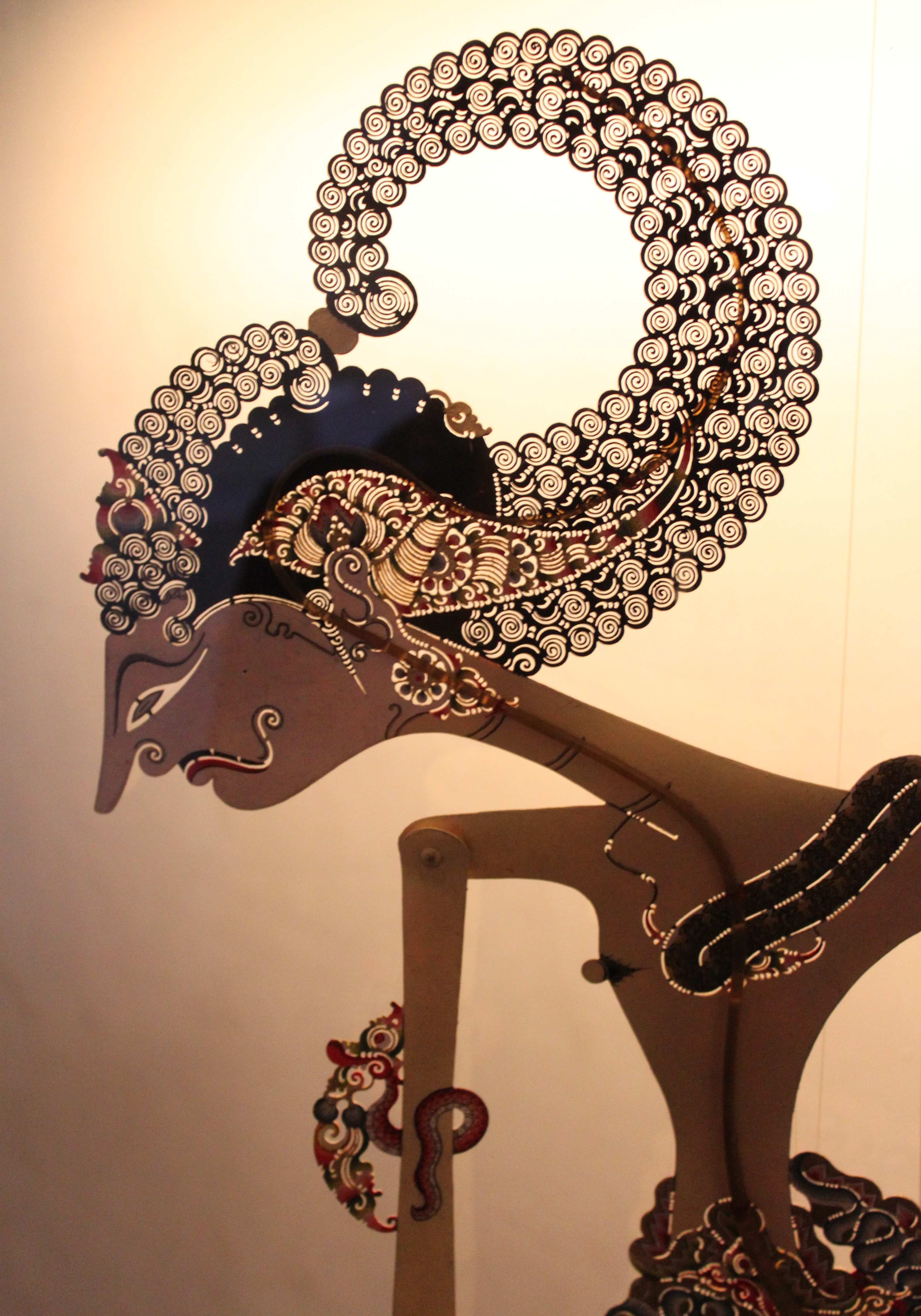 Silhouette of a Wayang, exhibited in Wayang Museum, Jakarta, Indonesia.